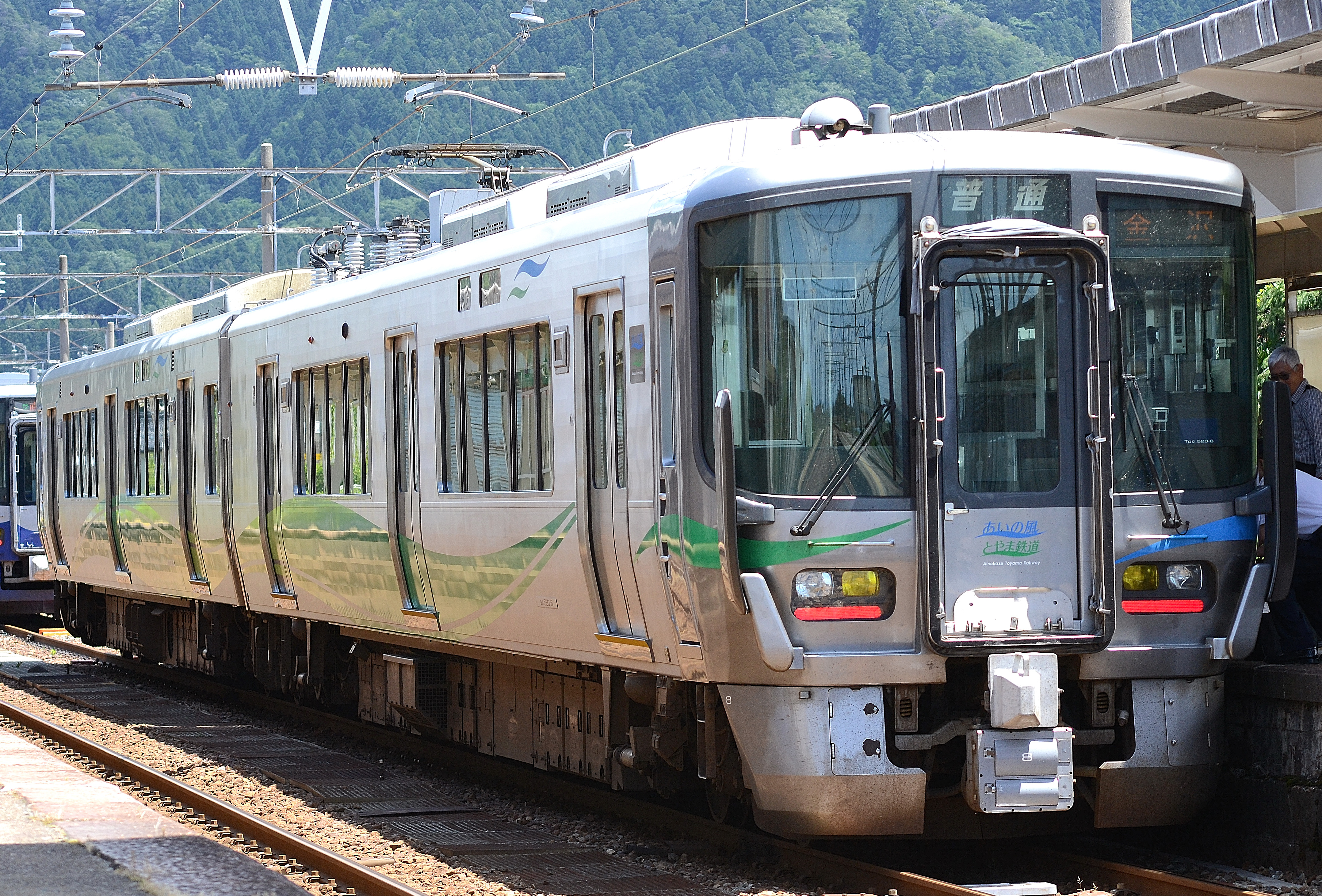 An Ainokaze Toyama Railway 521 series EMU at Tomari Station